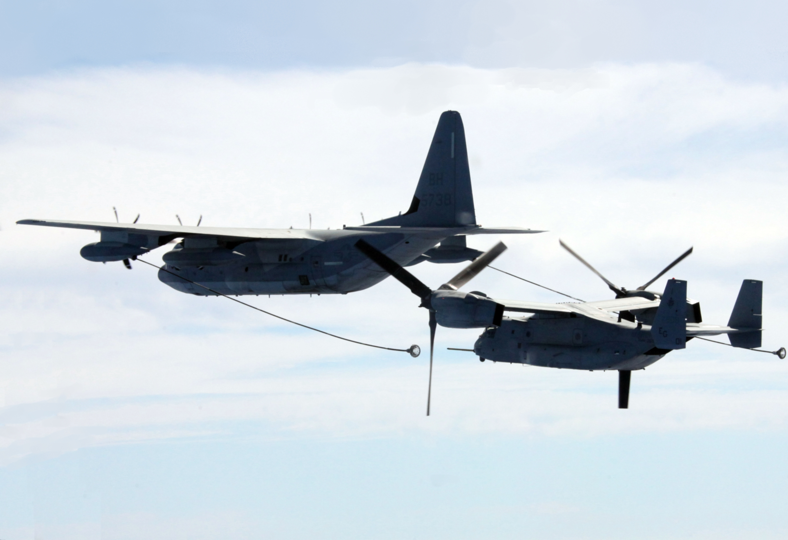 A U.S. Marine Corps Lockheed KC-130J Hercules (BuNo 165738) from Marine Aerial Refueler Transport Squadron VMGR-252 refuels an MV-22B Osprey from Marine Medium Tilt Rotor Squadron VMM-263 (Reinforced), 22nd Marine Expeditionary Unit, over the Mediterranean Sea, on 5 May 2011. The USMC 22nd MEU was deployed with Amphibious Squadron 6 aboard the USS Bataan (LHD-5) Amphibious Ready Group.